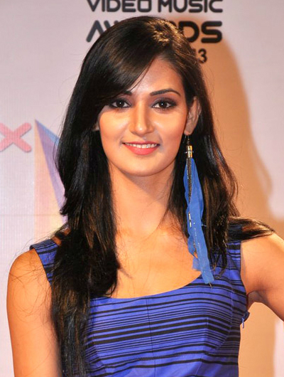 Shakti Mohan at the 'MTV Video Music Awards India 2013'